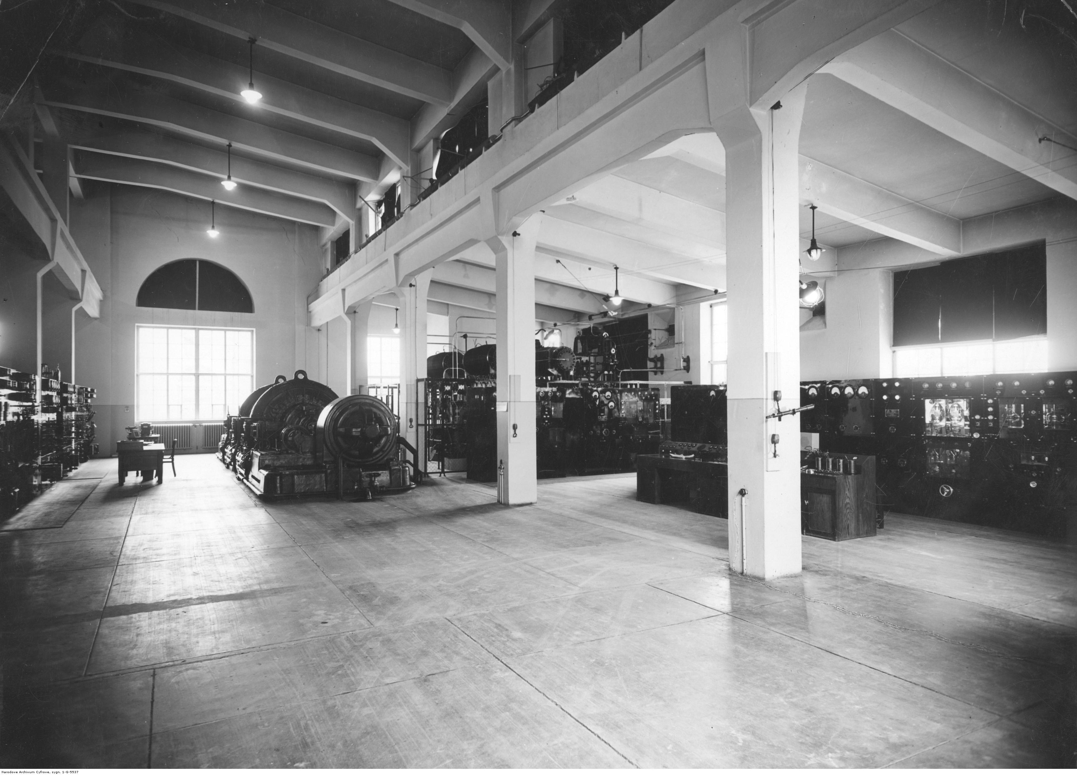 Transaltantic transmitter station in Babice, Poland